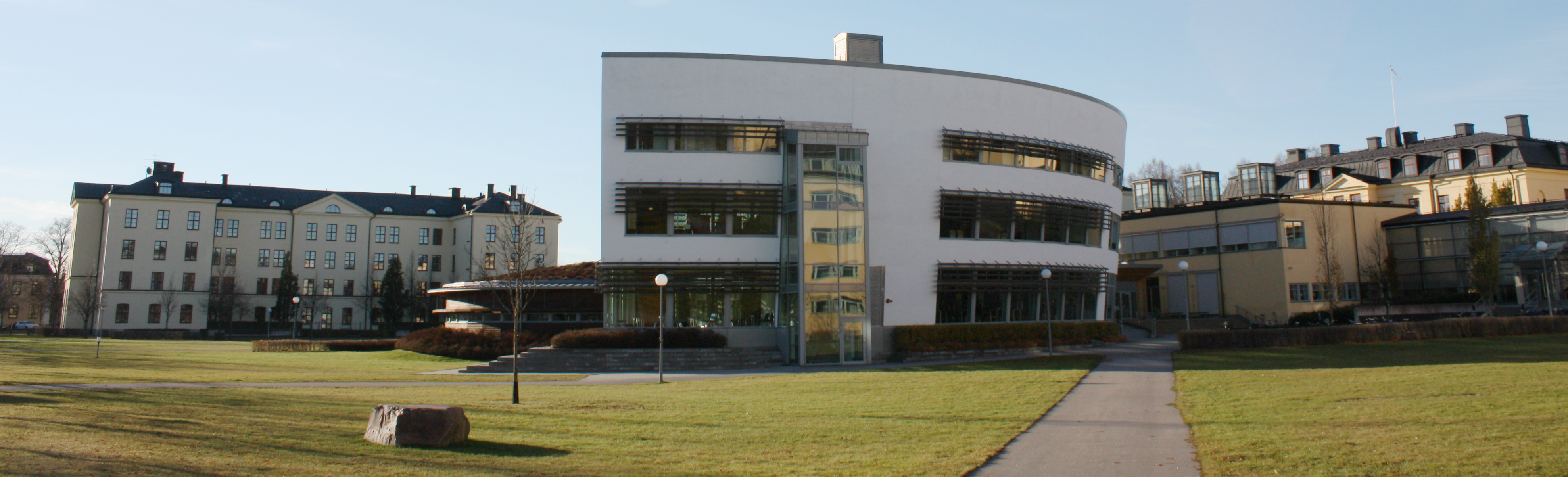 University of Gävle. October 2013.